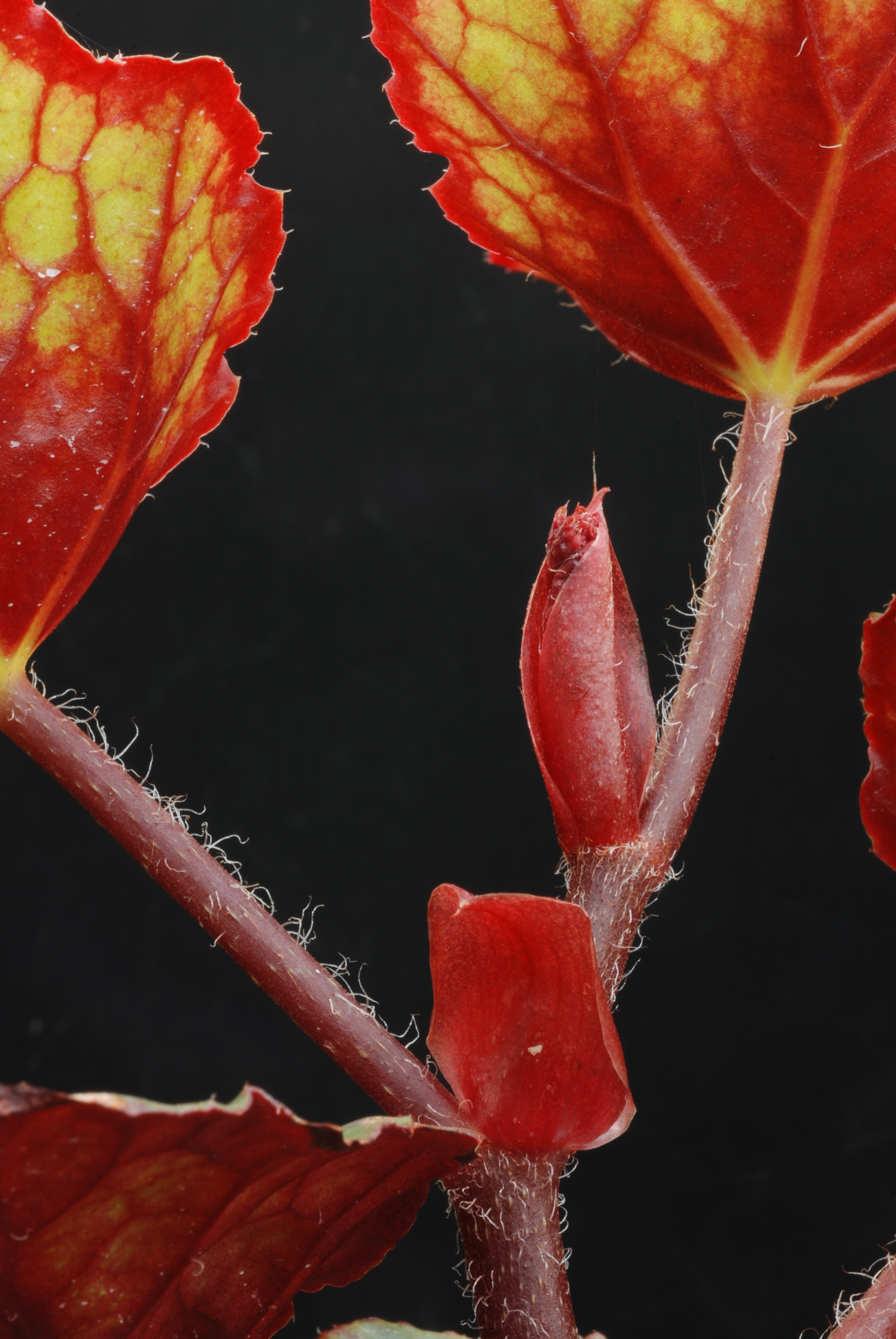 Name Begonia 'Axel Lange' Family Begoniaceae Accession : 19550125 National Botanical Garden of Belgium Meise Botanic Garden Native nameNationale Plantentuin van België / Jardin Botanique National de BelgiqueLocationDomein van Bouchout / Domaine de BouchoutNieuwelaan 381860 MeiseBelgiumCoordinates50° 55′ 42.28″ N, 4° 19′ 36.78″ E Established1826: established, 1870: became publicly owned,Web page control : Q3052500 VIAF: 159423716 ISNI: 0000 0001 2195 7598 LCCN: n50078011 NLA: 35880480 SELIBR: 120680 WorldCat institution QS:P195,Q3052500 Created under the volunteer photographer program at the National Botanical Garden of Belgium.